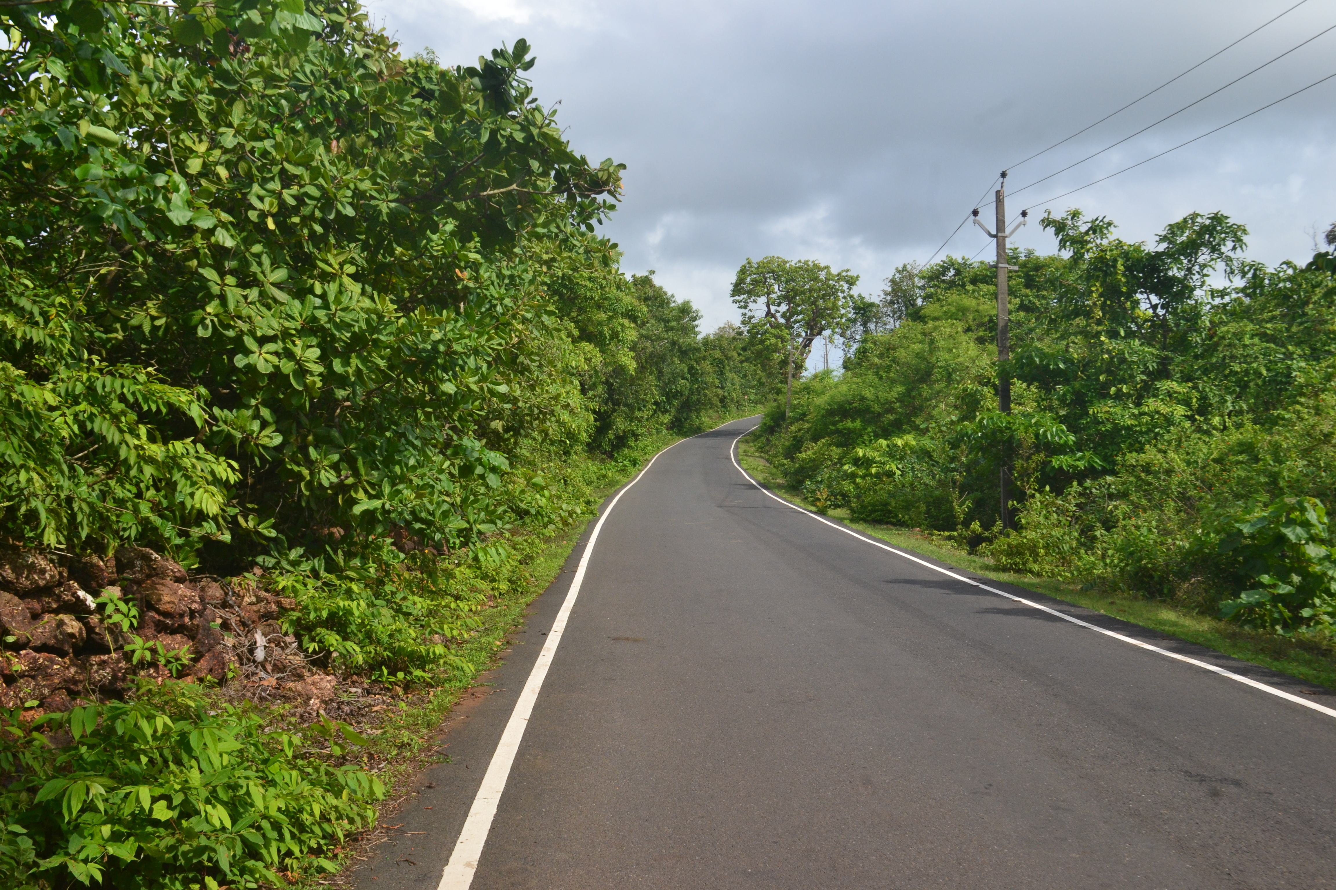 Road in Canacona Taluk at Goa, India